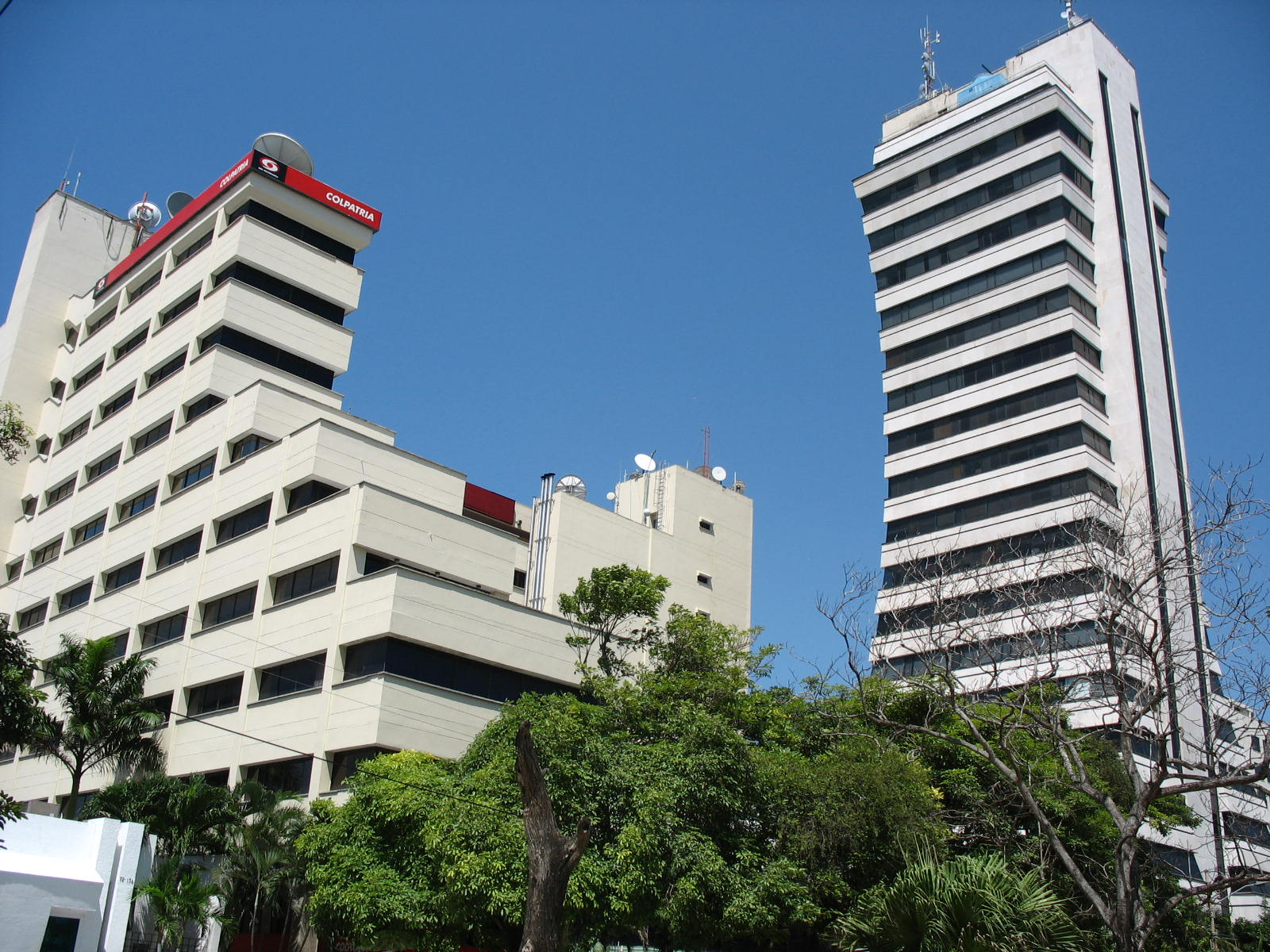 Edificio Miss Universo